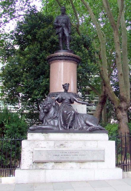 On Waterloo Place. The plaque reads as follows... "Colin Campbell Field Marshall Lord Clyde Born 1792 Died 1862". Colin Campbell (born Colin MacIver) was a British Army officer from Glasgow who led the Highland Brigade in the Crimean War and was in command of the ‘Thin red line’ at the battle of Balaclava.